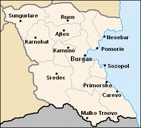 Croatian names on map of Burgas District (Bulgaria)